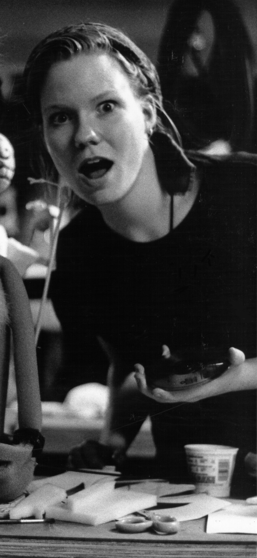 Jennifer Barnhart in the University of Connecticut puppetry lab with Egghead, November 1992